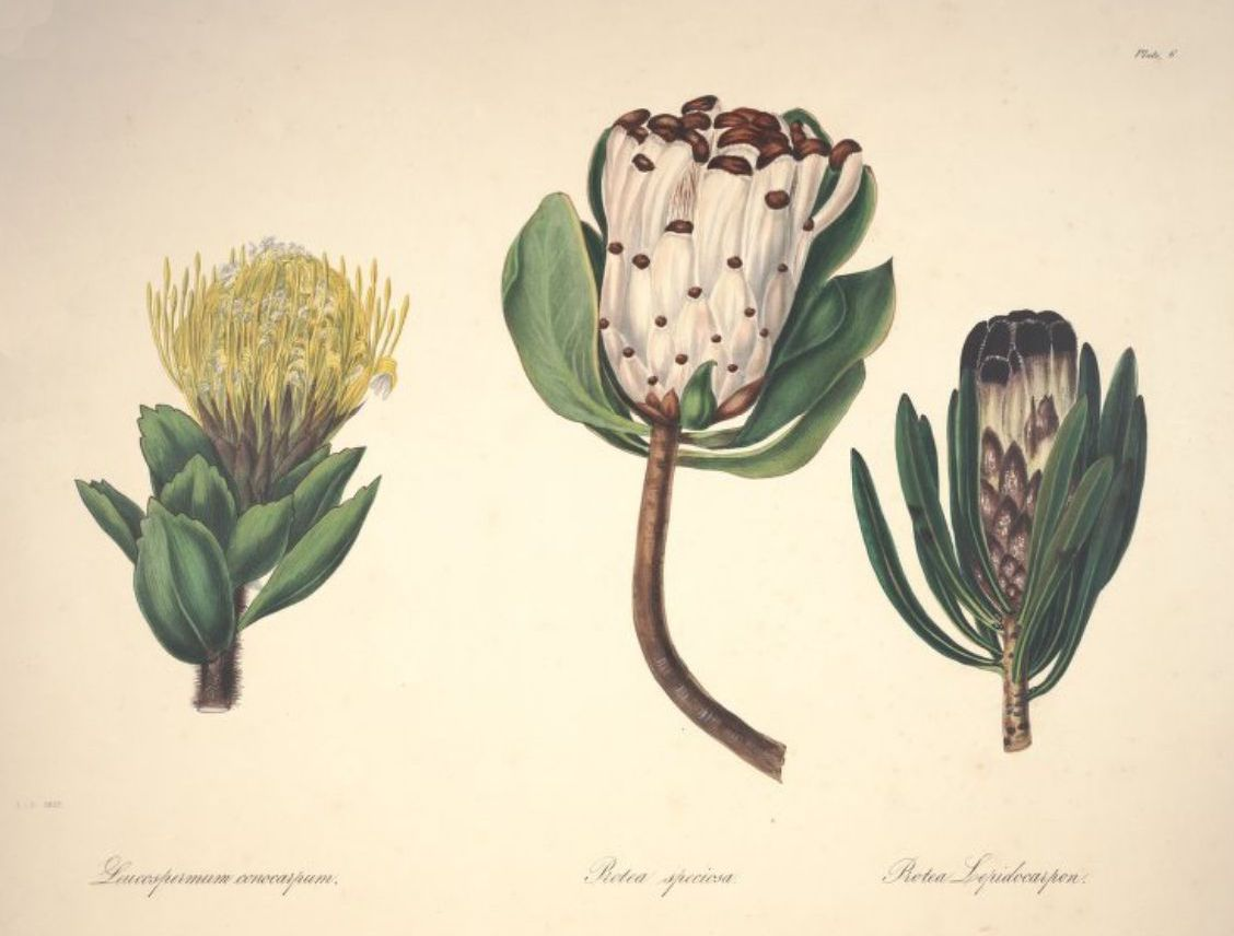 Leucospermum conocarpum R. Br. is a synonym of Leucospermum conocarpodendron subsp. conocarpodendron Protea speciosa L. Protea lepidocarpon R. Br. or Protea lepidocarpon Sims